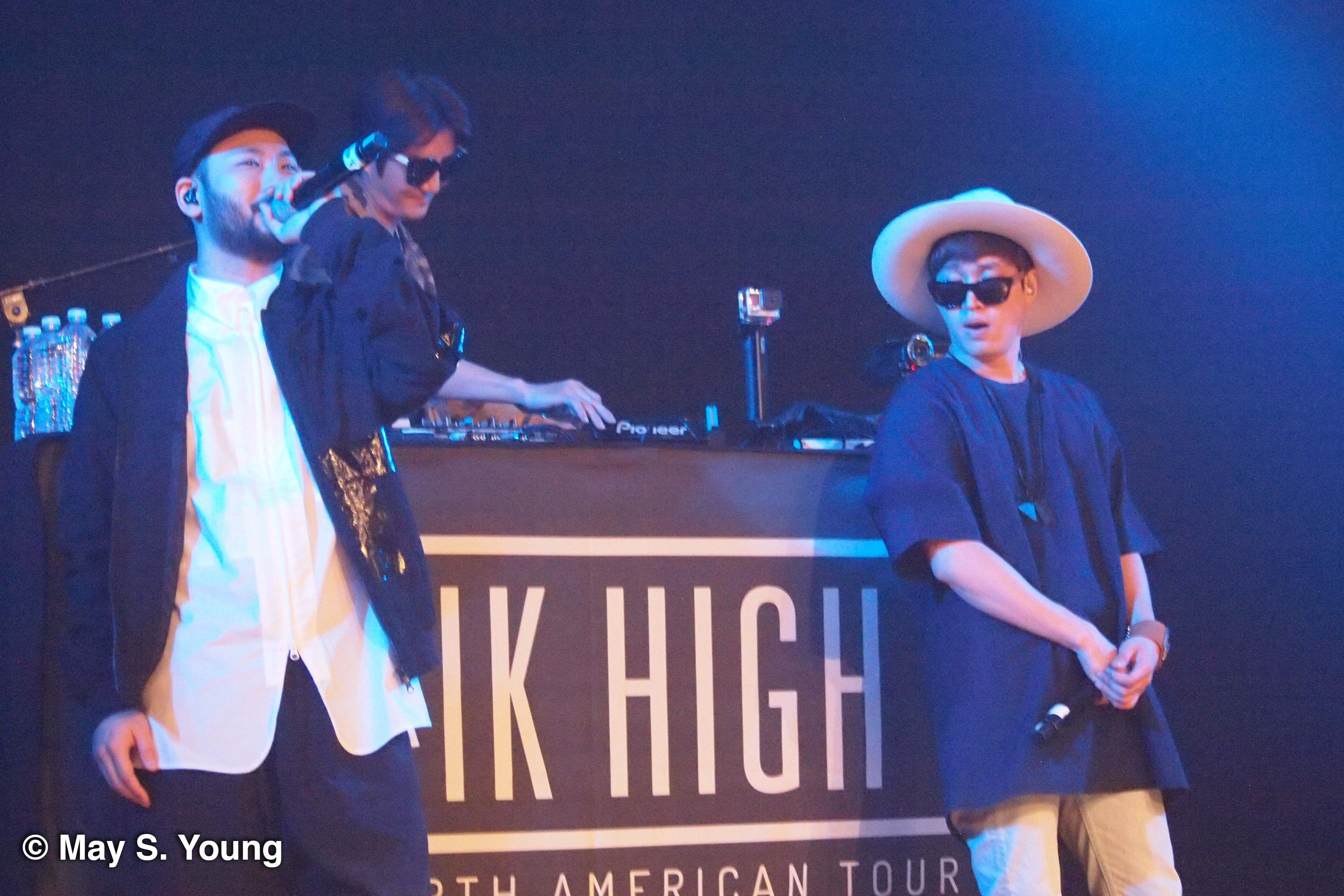 OLYMPUS DIGITAL CAMERA Epik High, Master Wu & DJ Soulscape at Best Buy Theater, New York City - 6/12/2015